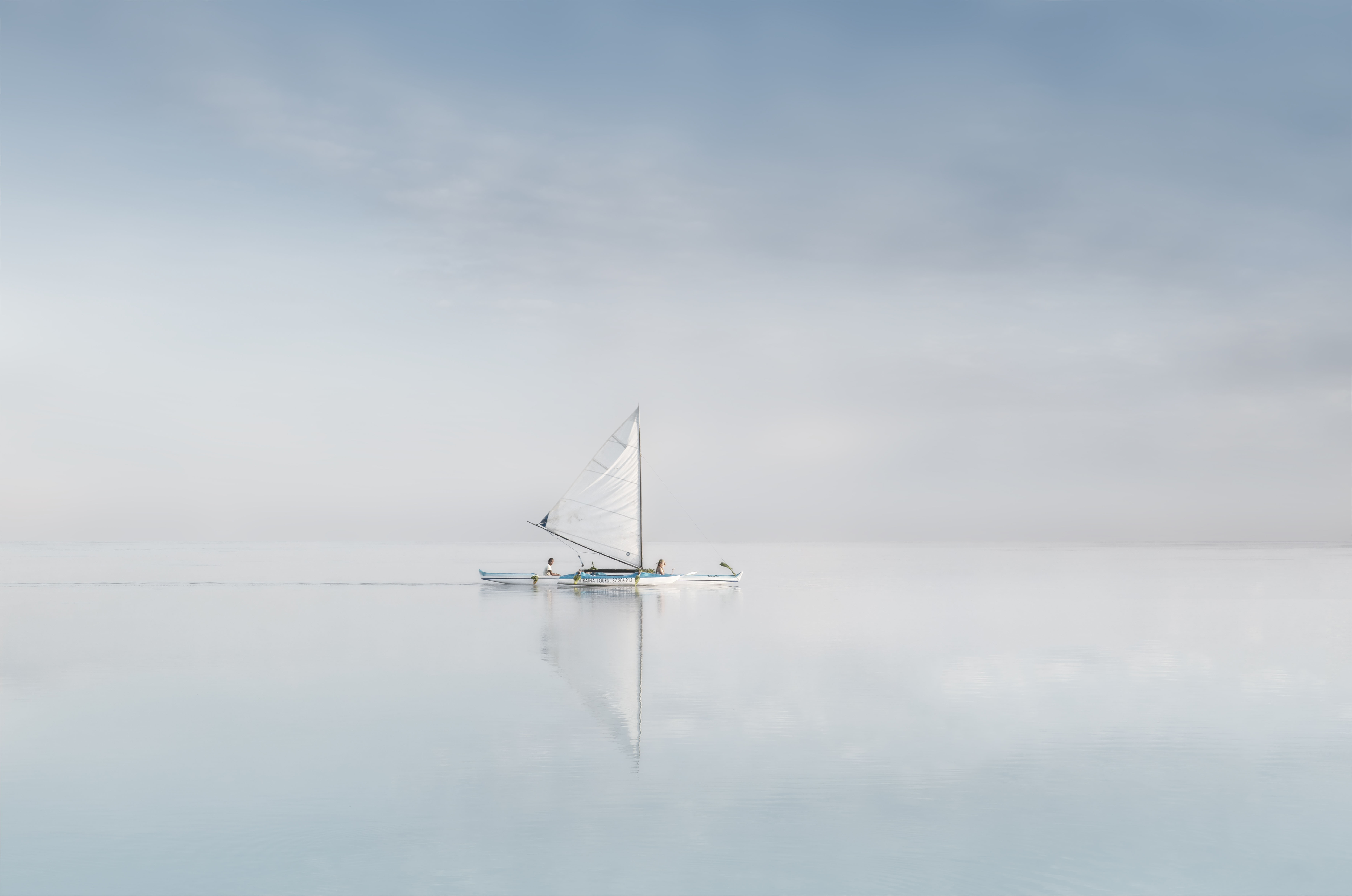 The canoe is an integral part of Polynesian life. It is used as means of transport between villages or houses and in sports activities on the water.